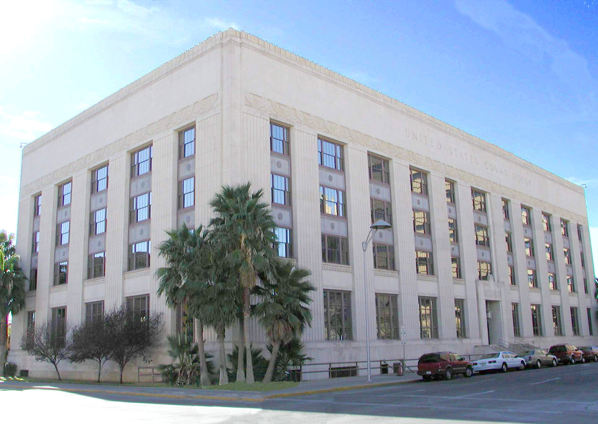 US Court House in El Paso, Texas from the GSA website. "Copyright Holder" listed as NA